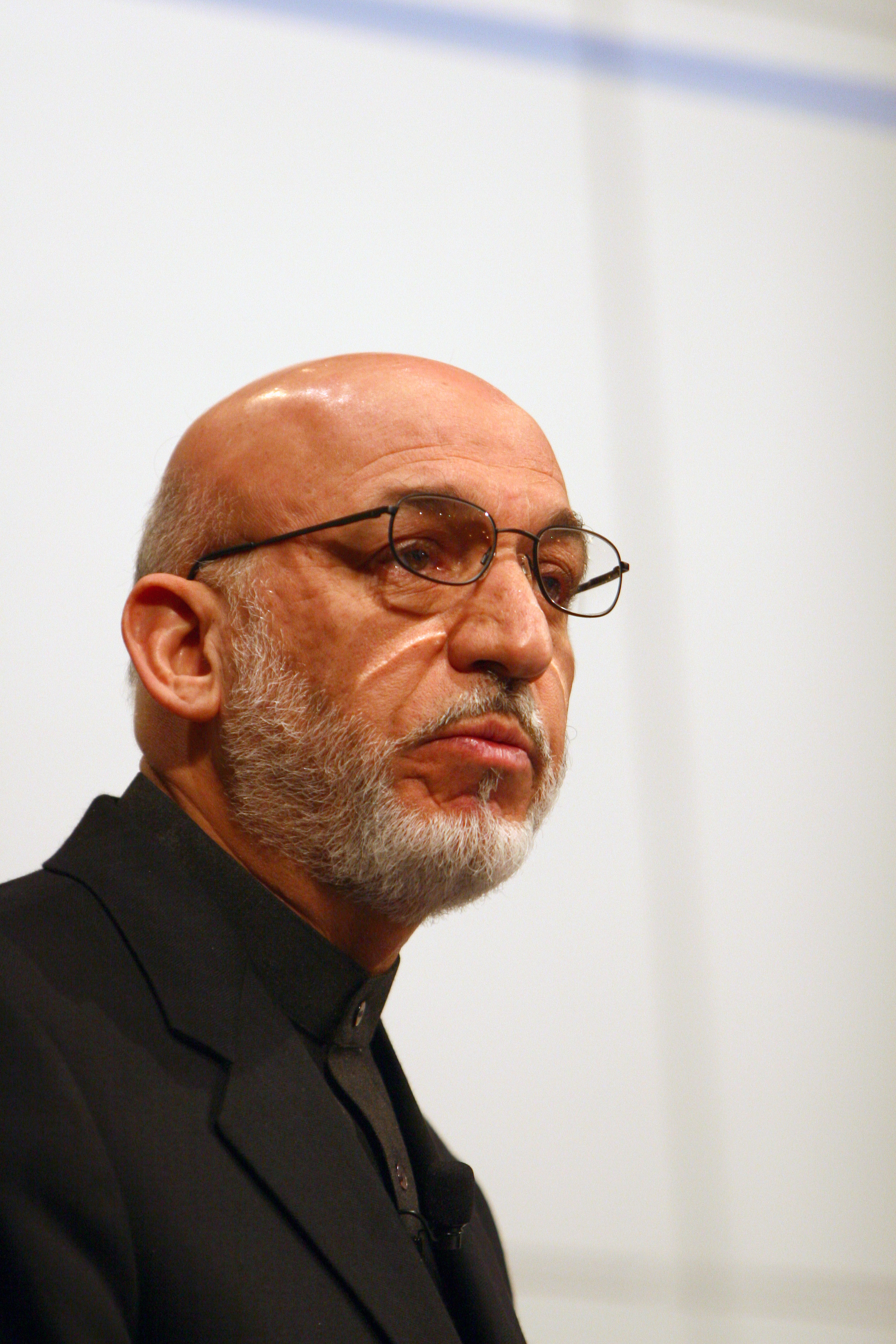 47th Munich Security Conference 2011: Hamid Karzai, President, Islamic Republic of Afghanistan, during his speech on Sunday.